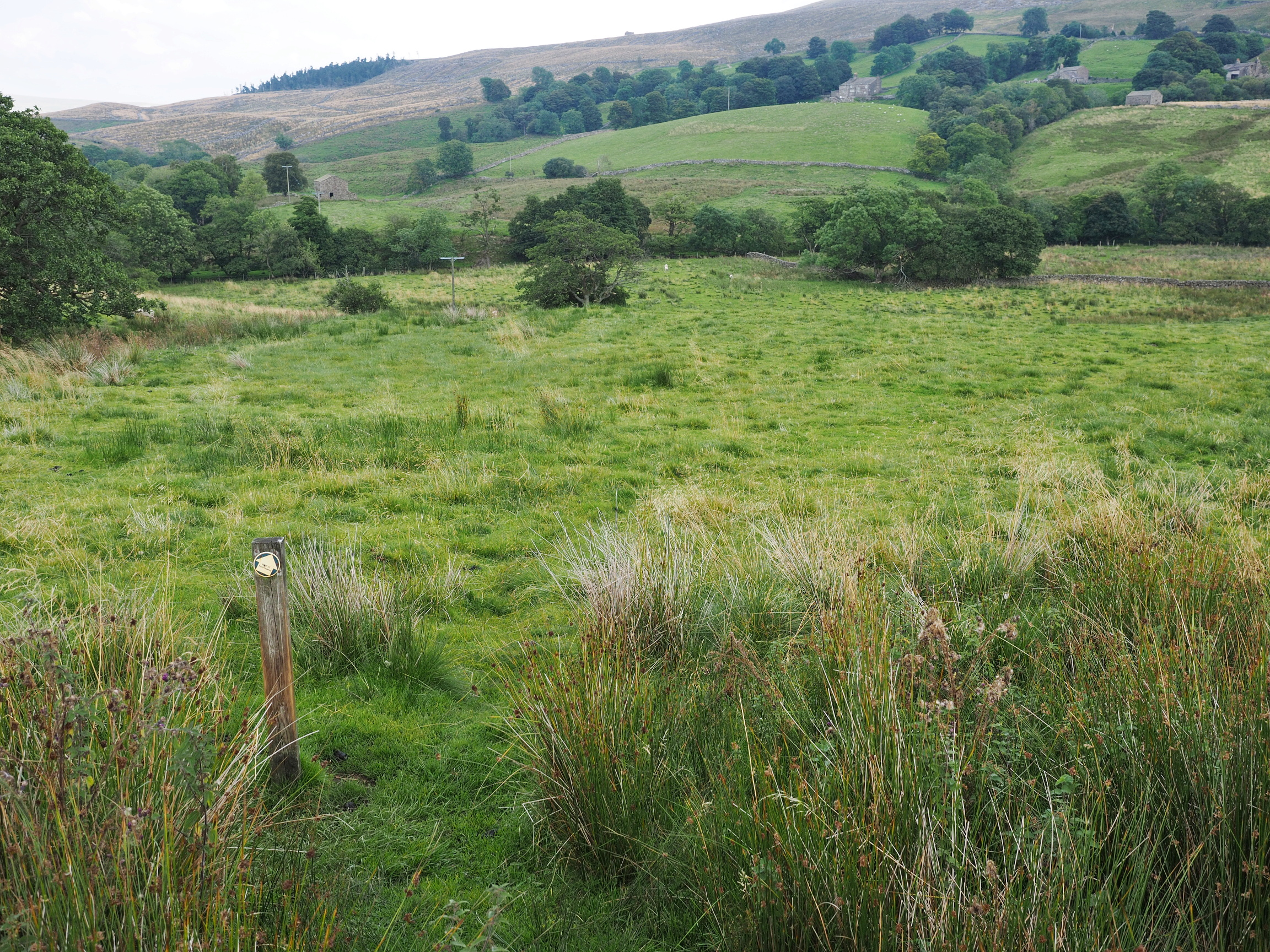 Public Footpath across meadowland, hardly visible on the ground